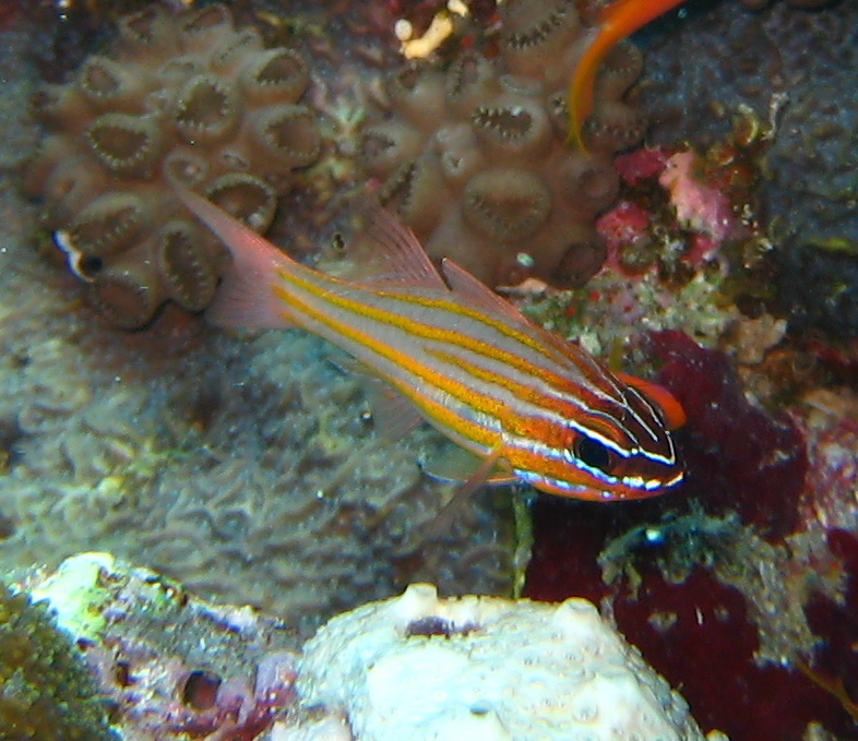 Apogon cf. cyanosoma near Safaga, Egypt